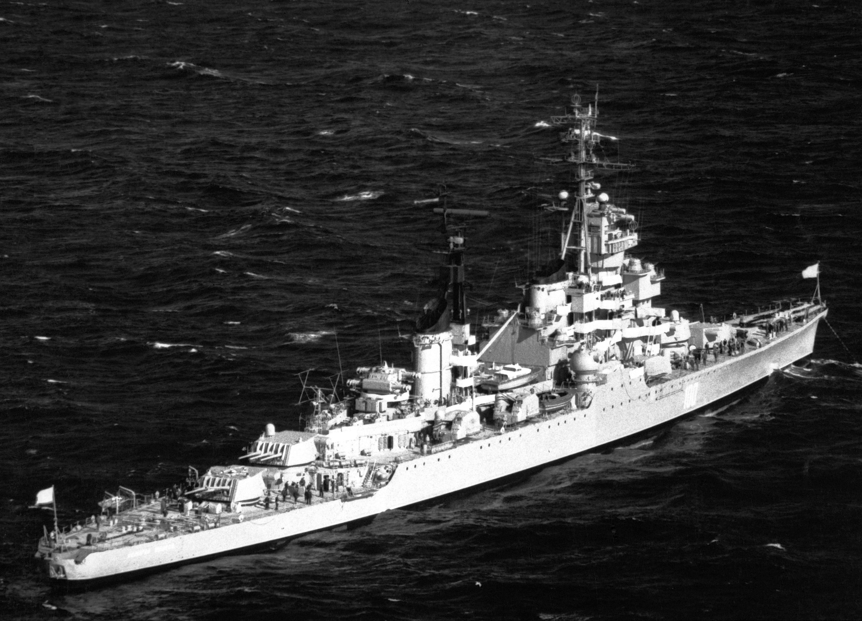 An elevated starboard quarter view of the Soviet project 68-A light cruiser Admiral Ushakov. (SUBSTANDARD)